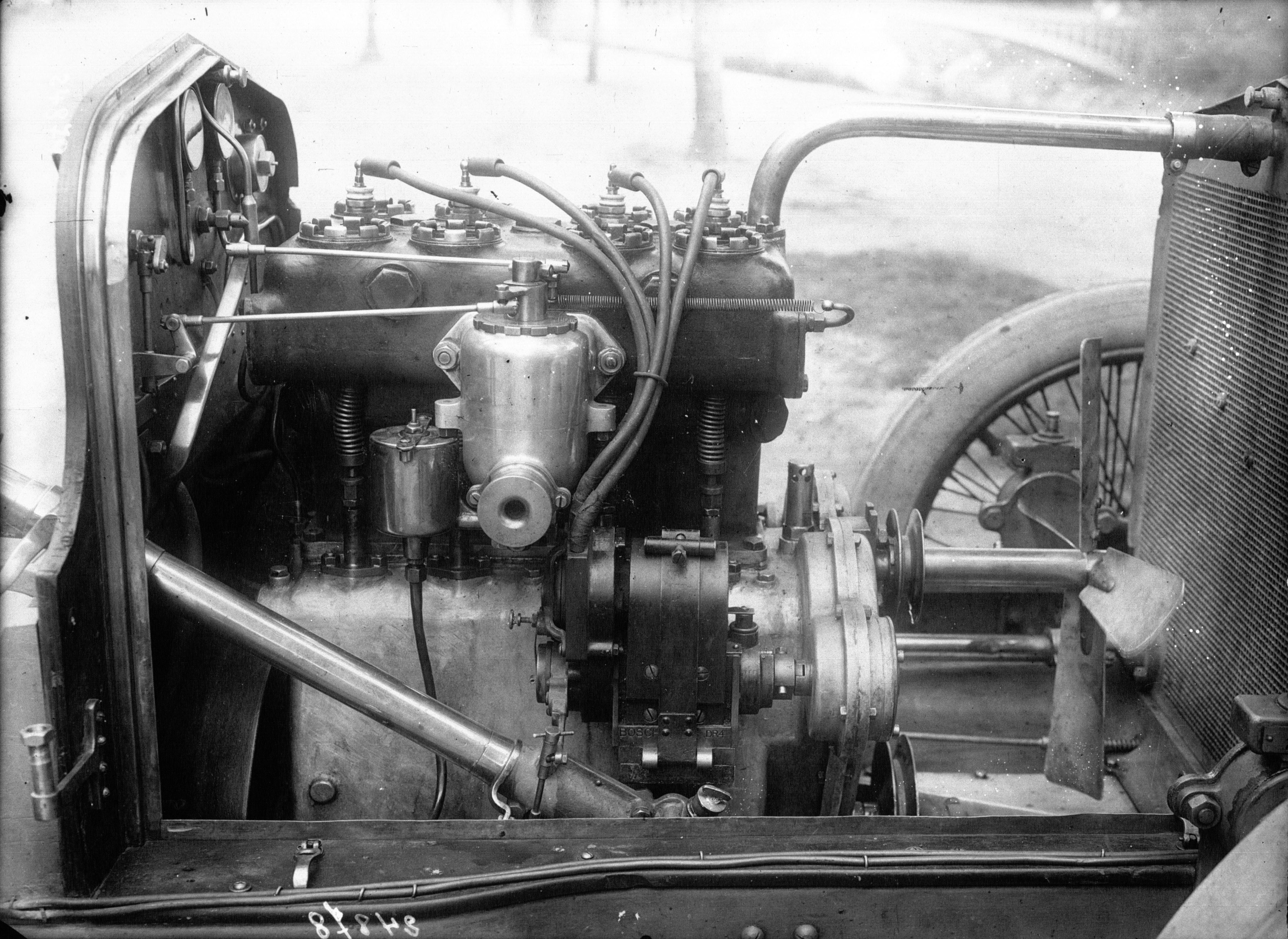 Hispano-Suiza engine at the 1912 French Grand Prix at Dieppe.